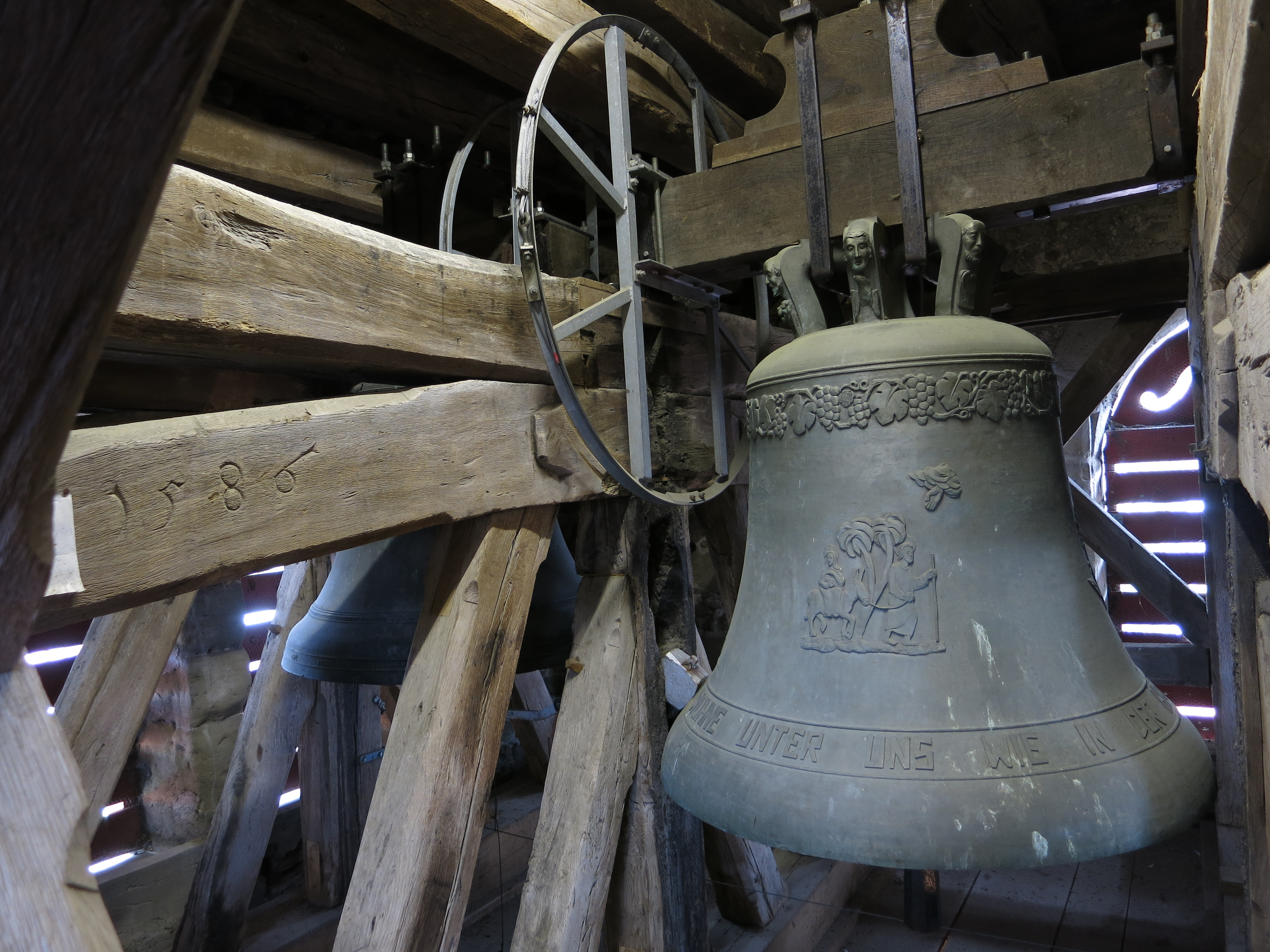 Bells in tower of St Peter und Paul church, Owingen